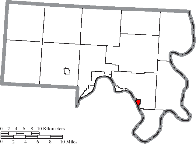 Map of the municipal and township boundaries of Meigs County, Ohio, United States, as of the 2000 census, with the location of the village of Racine highlighted. Township borders are shown only in unincorporated areas in order to differentiate incorporated and unincorporated areas more clearly.